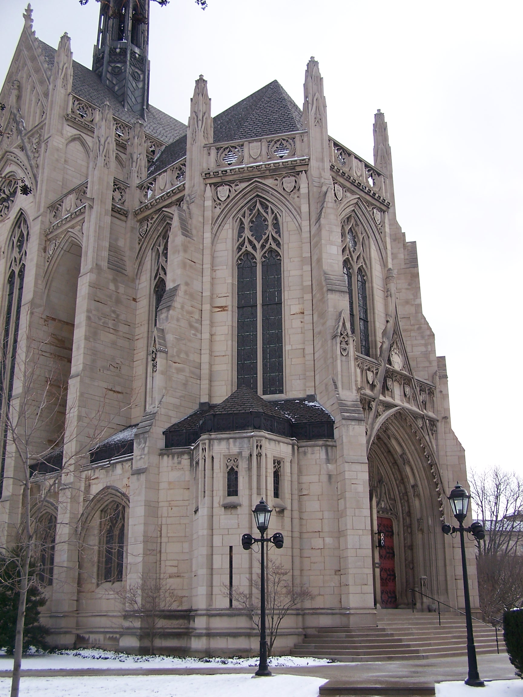 The exterior of the main doors of Heinz Chapel.